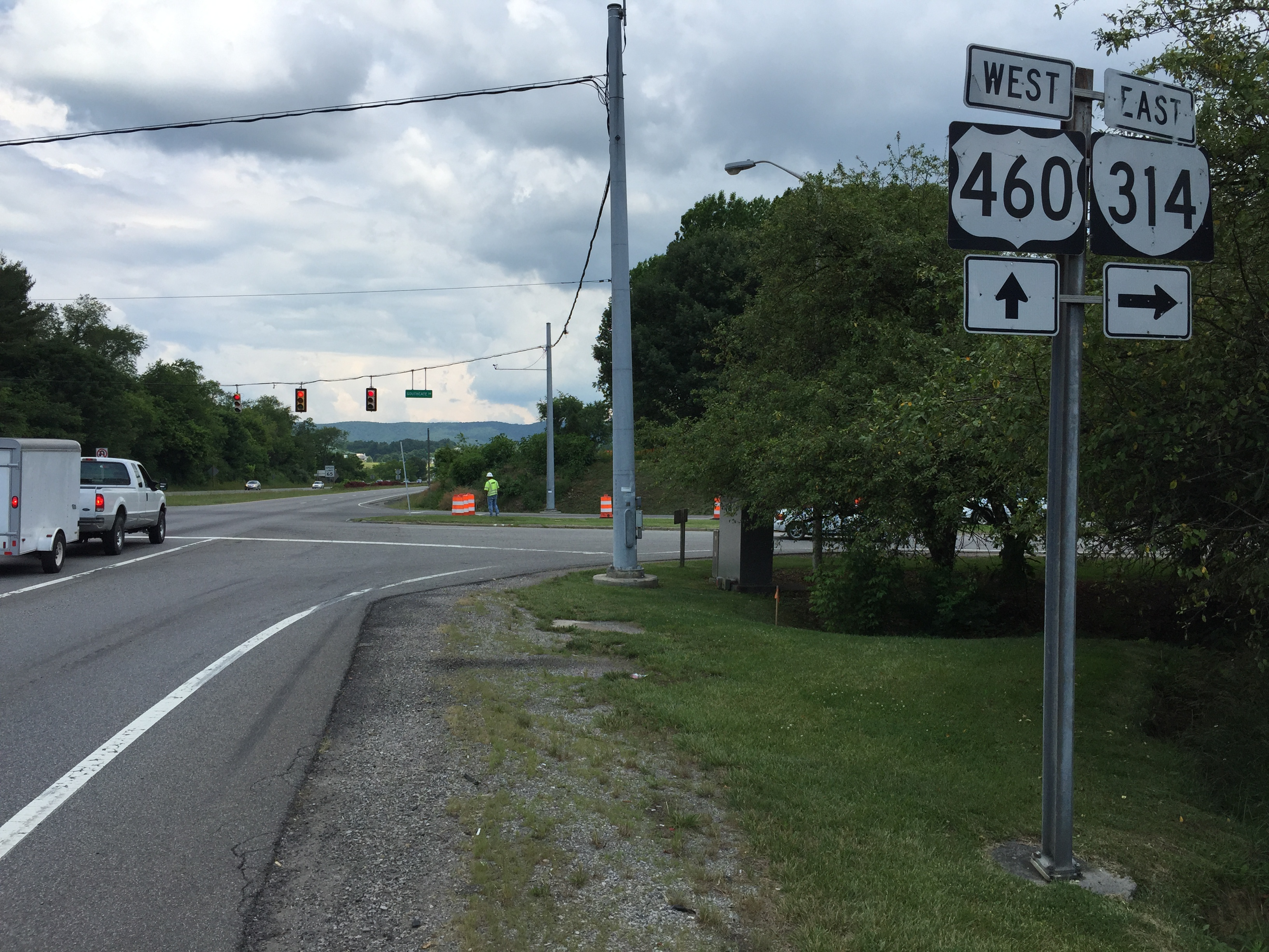 View north along U.S. Route 460 at Virginia State Route 314 (Southgate Drive) in Blacksburg, Montgomery County, Virginia